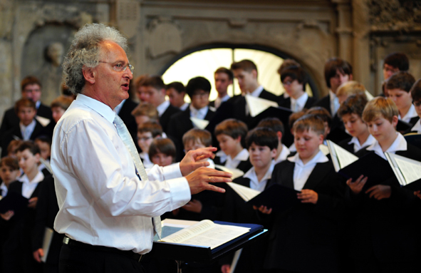 Cantor Roderich Kreile with the Dresden Kreuzchor in Dresden's Church of the Cross, June 2012